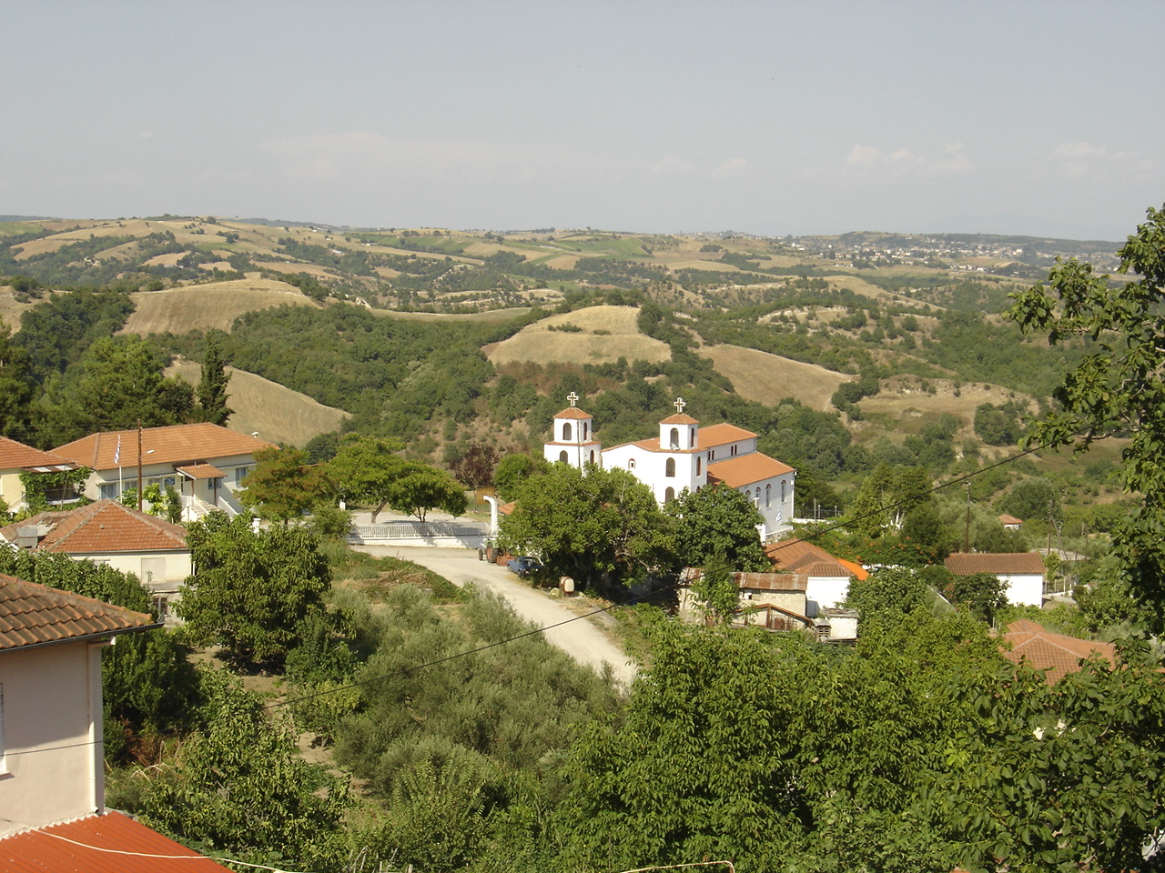 View of Meliadi.